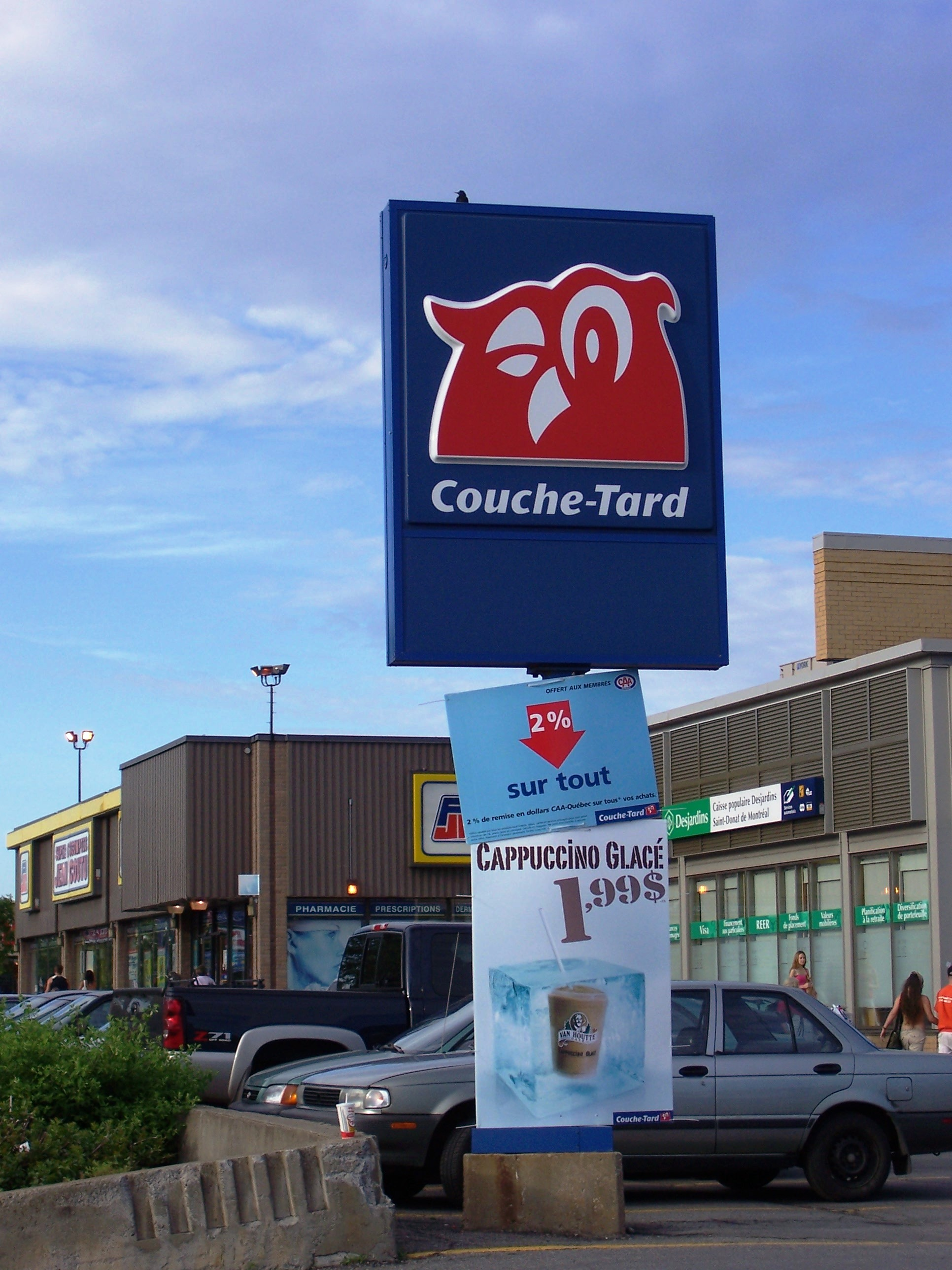 Photo of a Couche-tard convenience store in Montreal, Quebec, Canada.